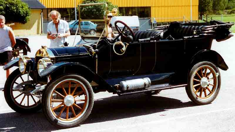 Maxwell Model 24-4 Touring 1913. Restored and owned by Willy Hornseth, Tylldalen, Norway.